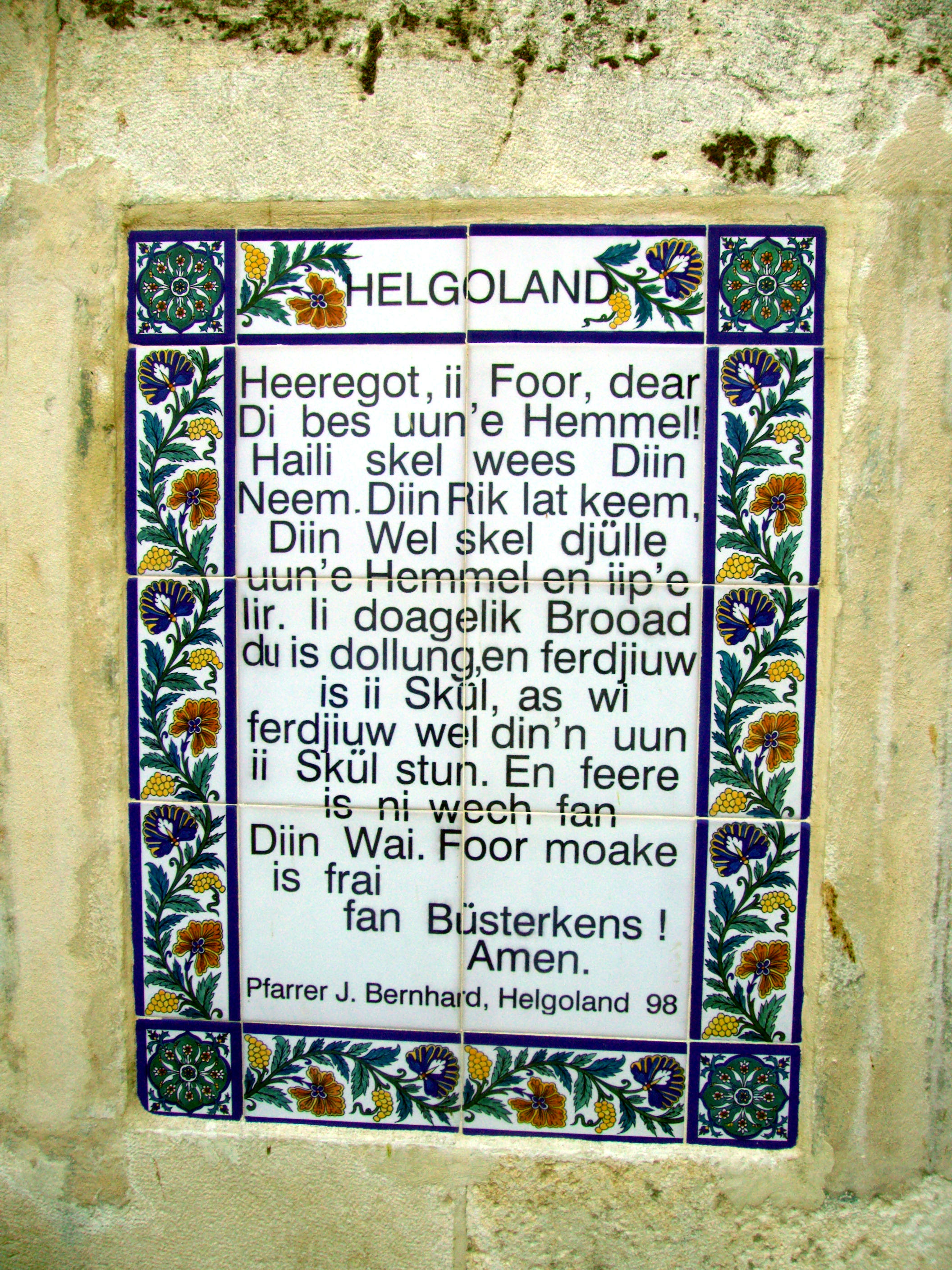 The picture is showing the lord's prayer from Heligoland.